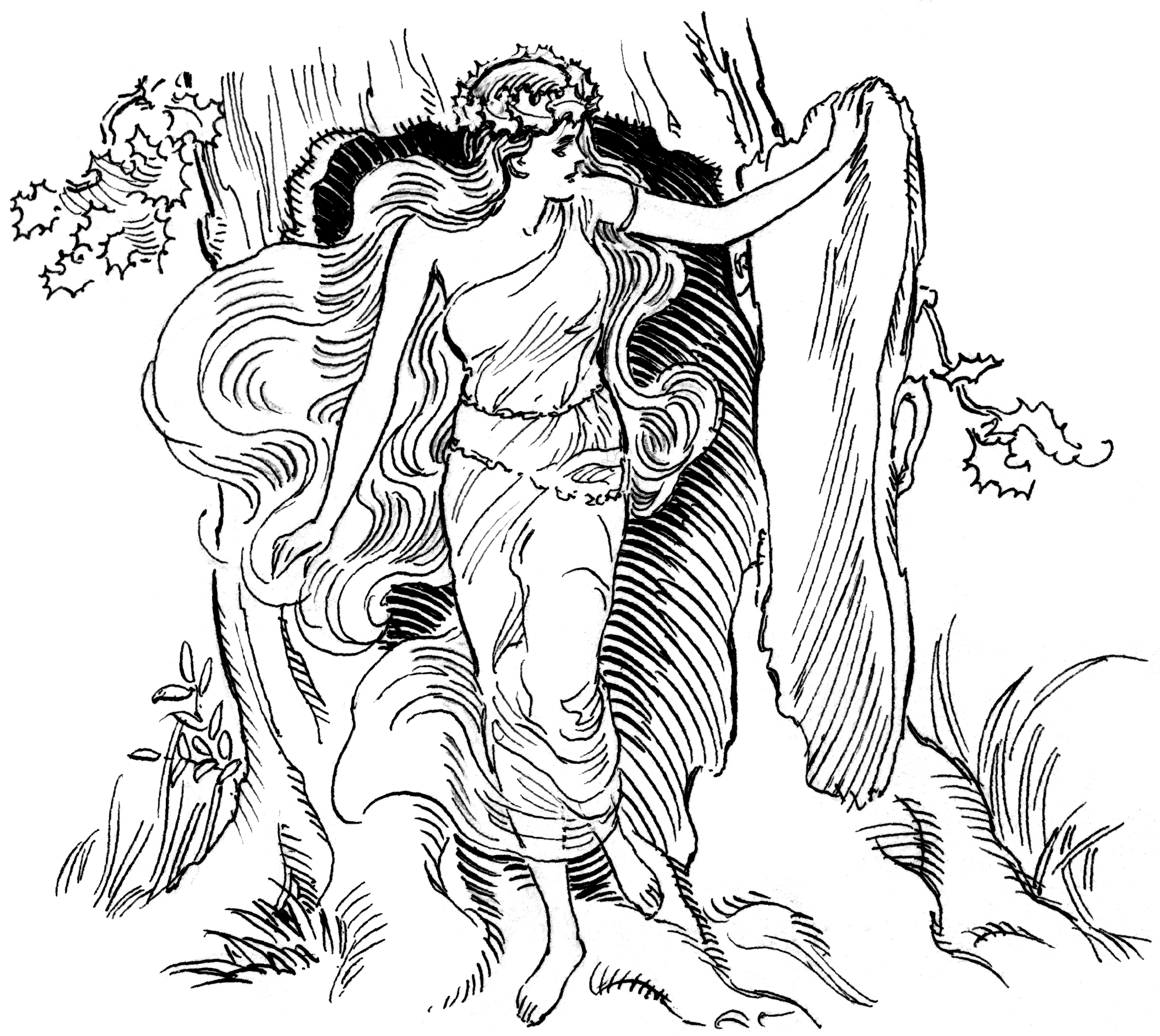 Line art drawing of a dryad.